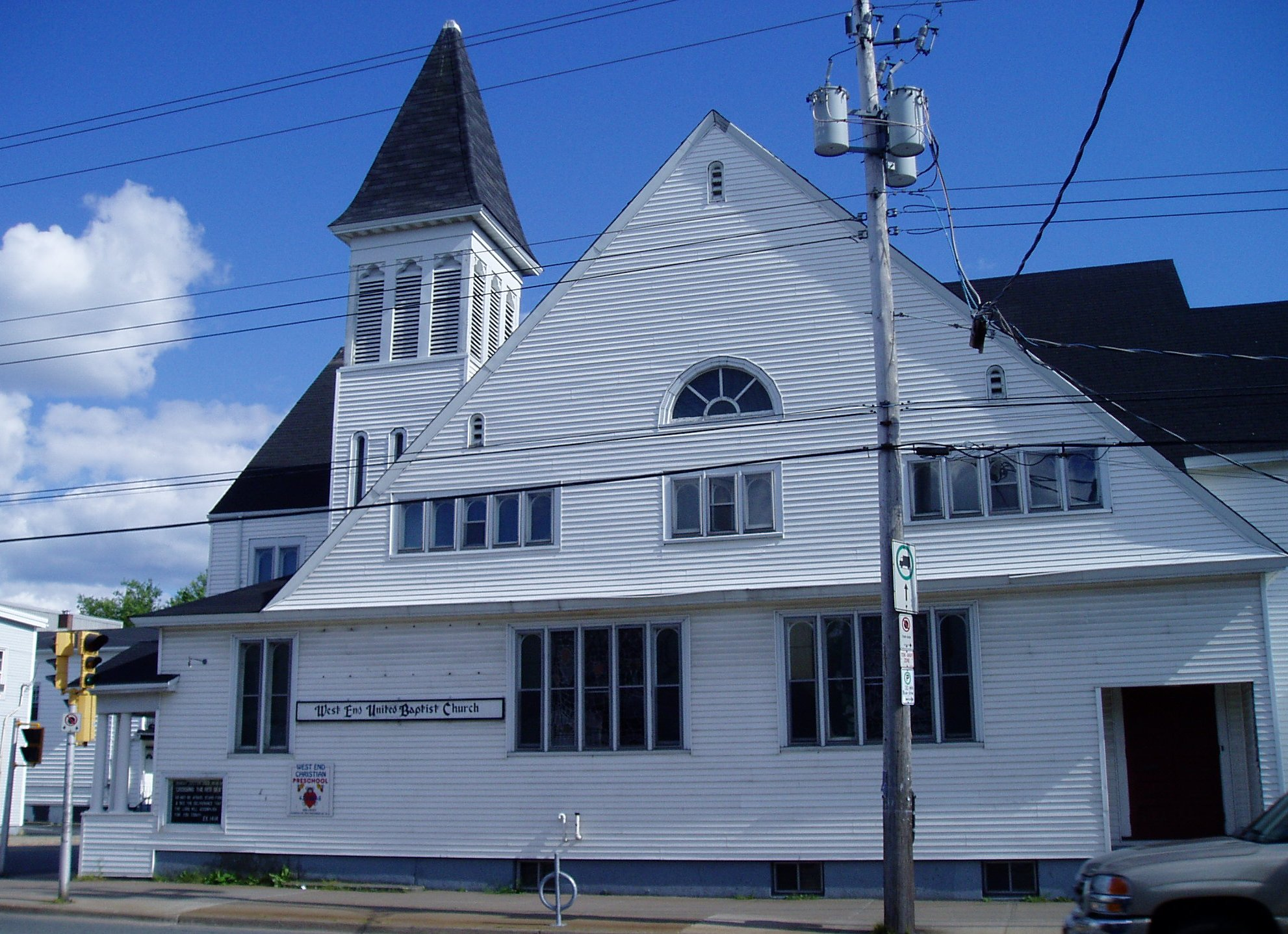 West End United Baptist Church in Halifax. Taken by SimonP